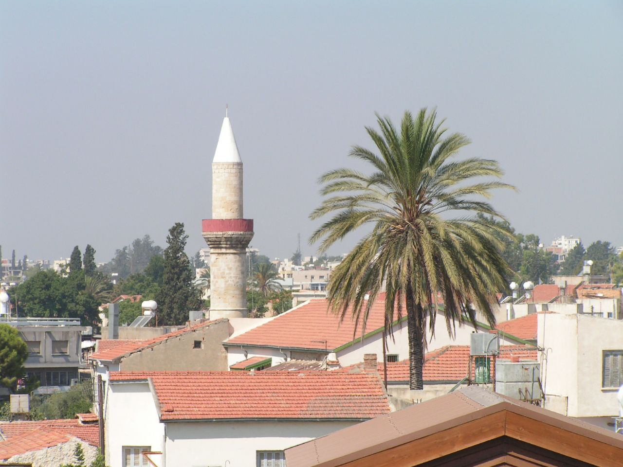 Kebir-Moschee (Große Moschee), Limassol, ZypernCyprus limassol roof tops series